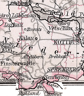 Detail from a map of Brandenburg.